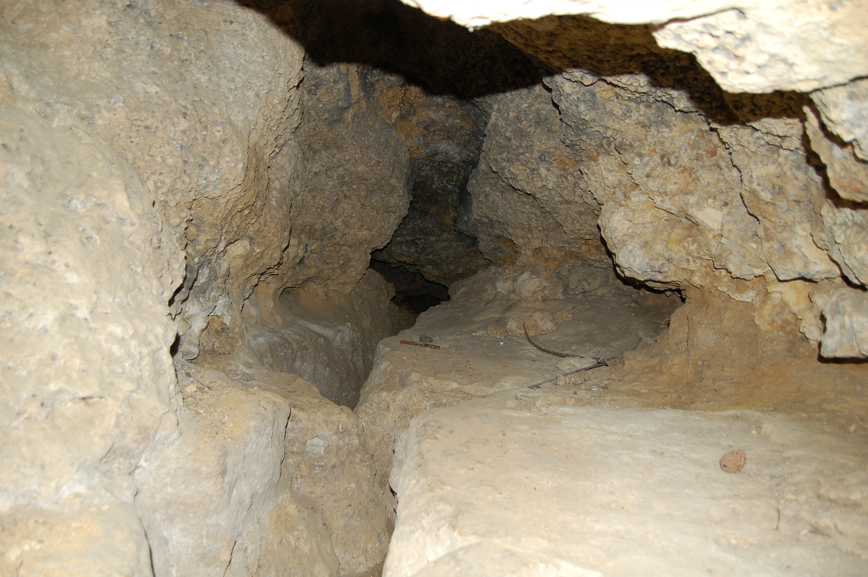 Räuberhöhle, a cave in southern Lower Austria